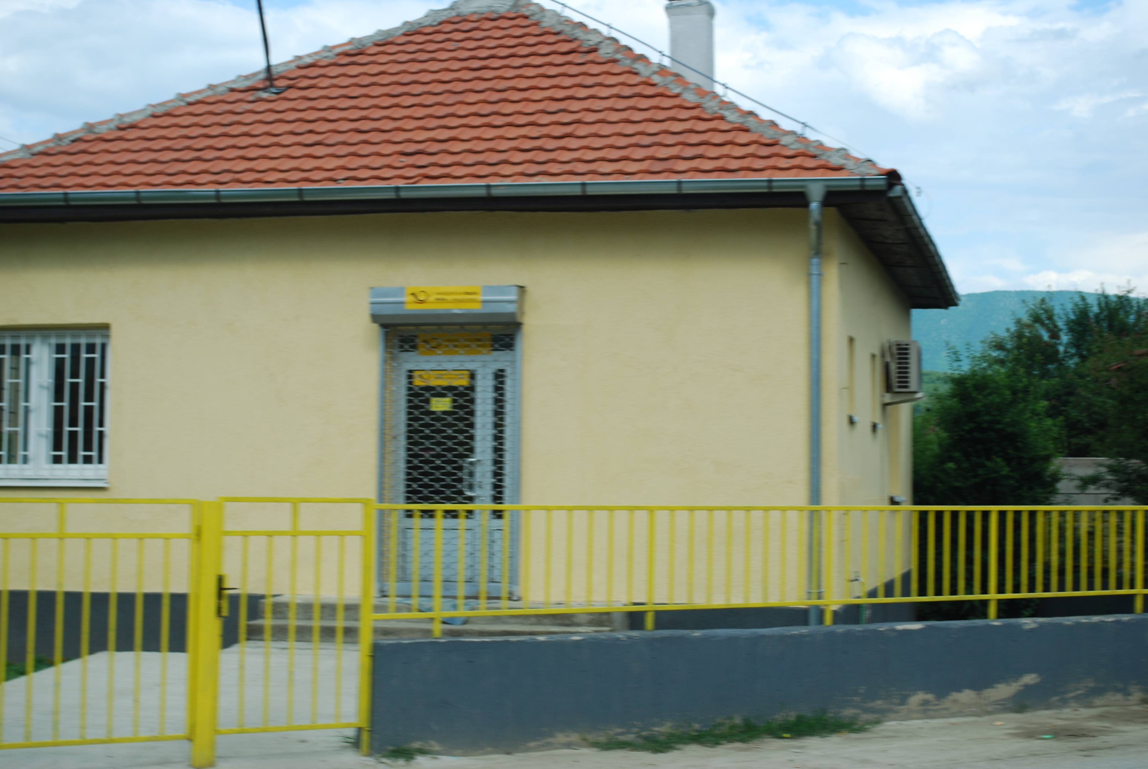 Post in Žerovjane, Tetovo, Macedonia